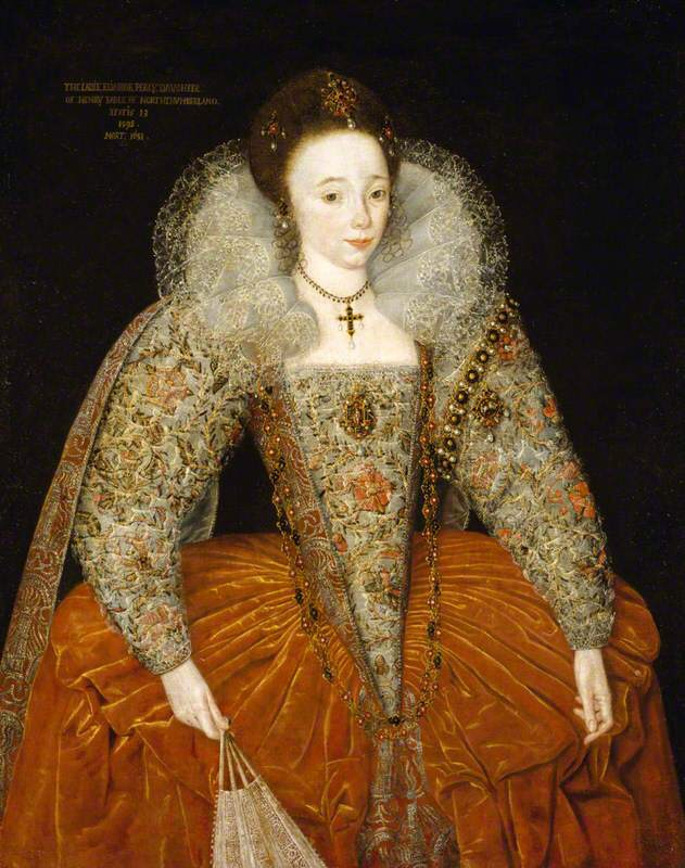 Portrait of Lady Eleanor Percy (1582/1583–1650), afterwards Lady Powis, Aged 13